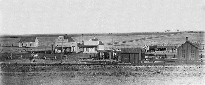 Title: Conway, Tex. Creator: Unknown Date: ca. 1909 Part of: George W. Cook Dallas/Texas image collection Series: Series 3: Photographs Series 3, Subseries 3, Postcards Series 3, Subseries 3d, RPPC, Texas Place: Conway, Carson County, Texas Description: This real photographic postcard shows a general store and other buildings along a railroad track in Conway, Texas. Physical Description: 1 photographic print (postcard): gelatin silver; 9 x 14 cm File: a2014_0020_3_3_d_0420_c_conwaytracks.jpg Rights: Please cite DeGolyer Library, Southern Methodist University when using this file. A high-resolution version of this file may be obtained for a fee by contacting . For more information and to view the image in high resolution, see